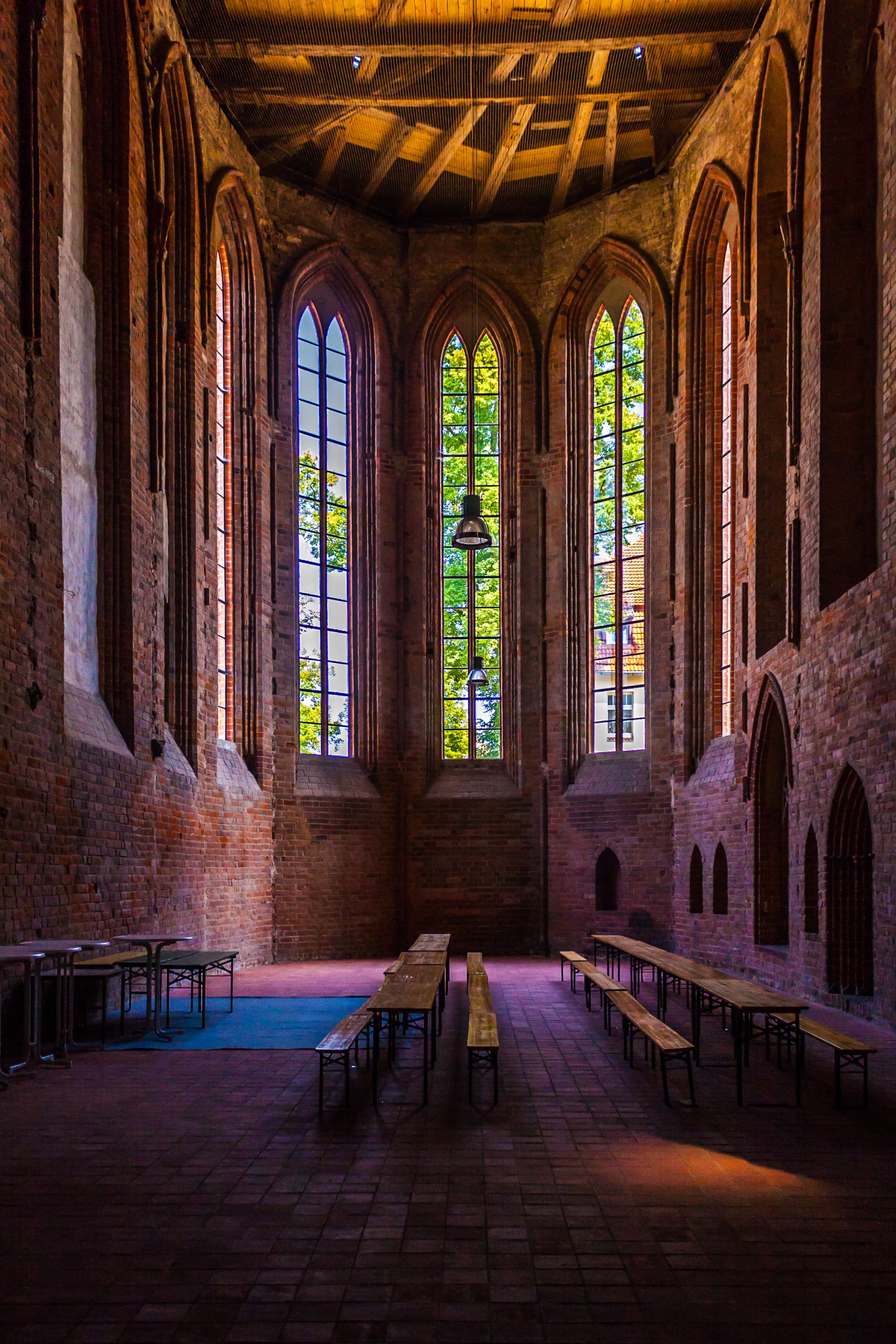 Nave monastery church Angermuende